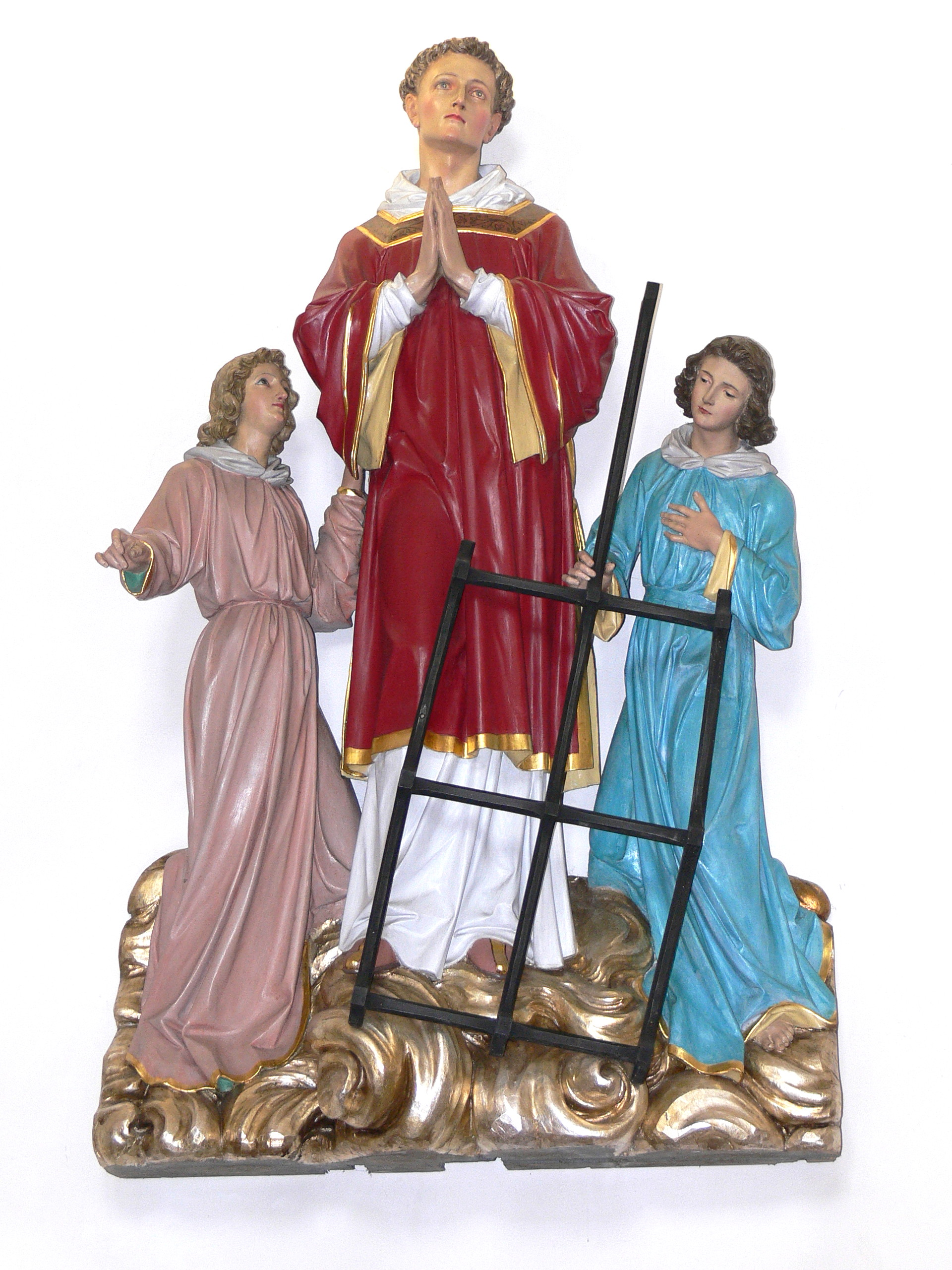 Arnreit parish church. Statue of Saint Lawrence( 1904 ) - remnant of a destroyed Gothic revival high altar by Ludwig Linzinger.